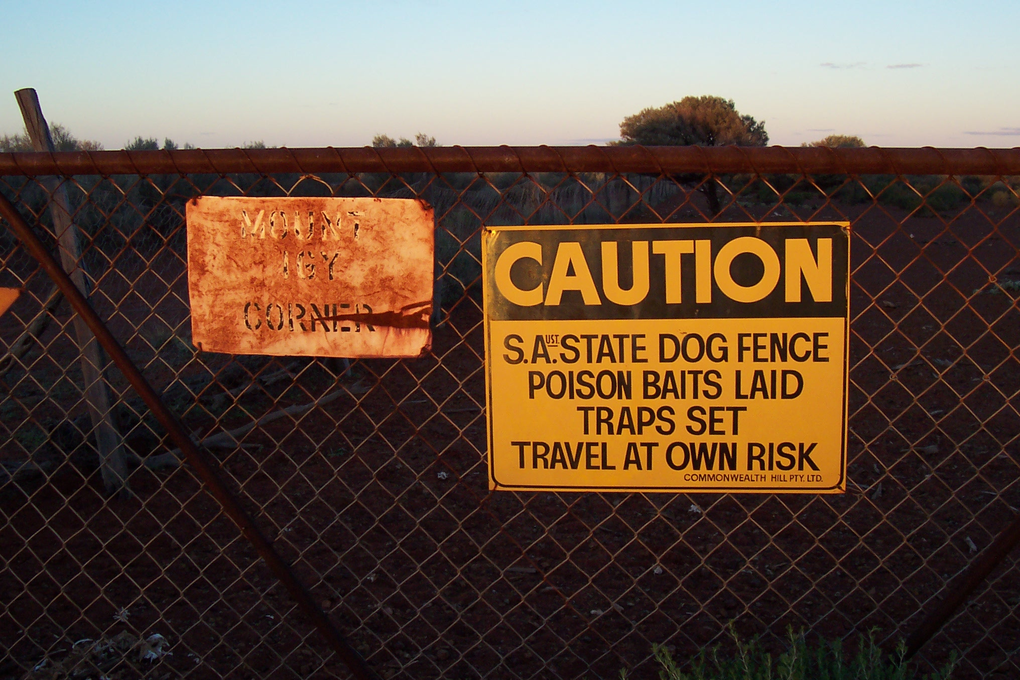 Dog fence at Igy Corner, South Australia. (Edge of pastoral land, SW of Coober Pedy.